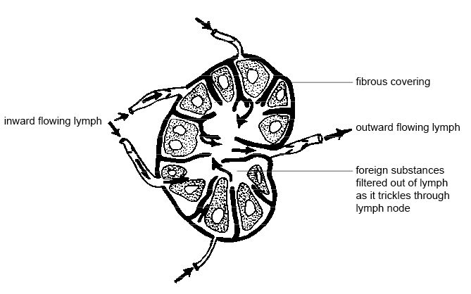 By Ruth Lawson. Otago Polytechnic.